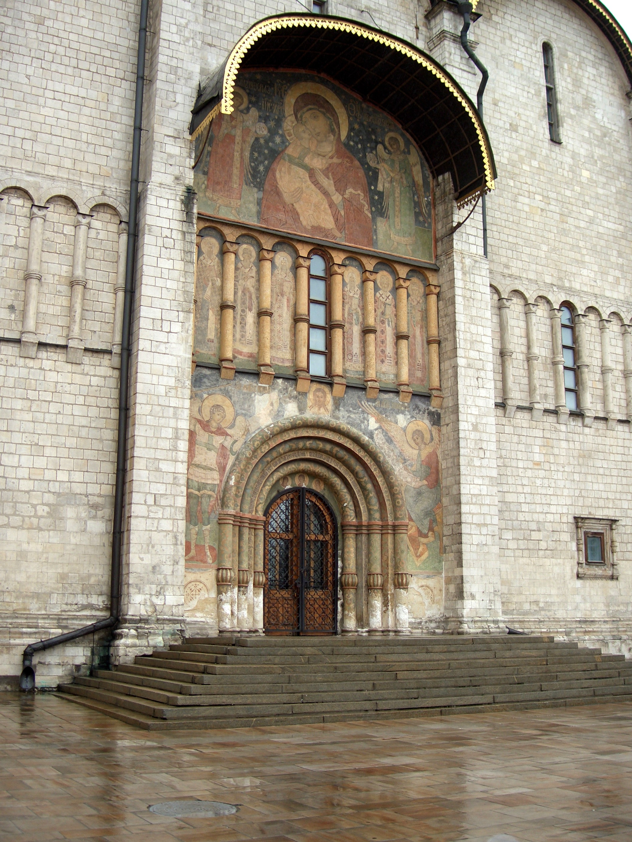 Royal Procession door on the Cathedral. Entry doors to Dormition Cathedral, Moscow Kremlin.